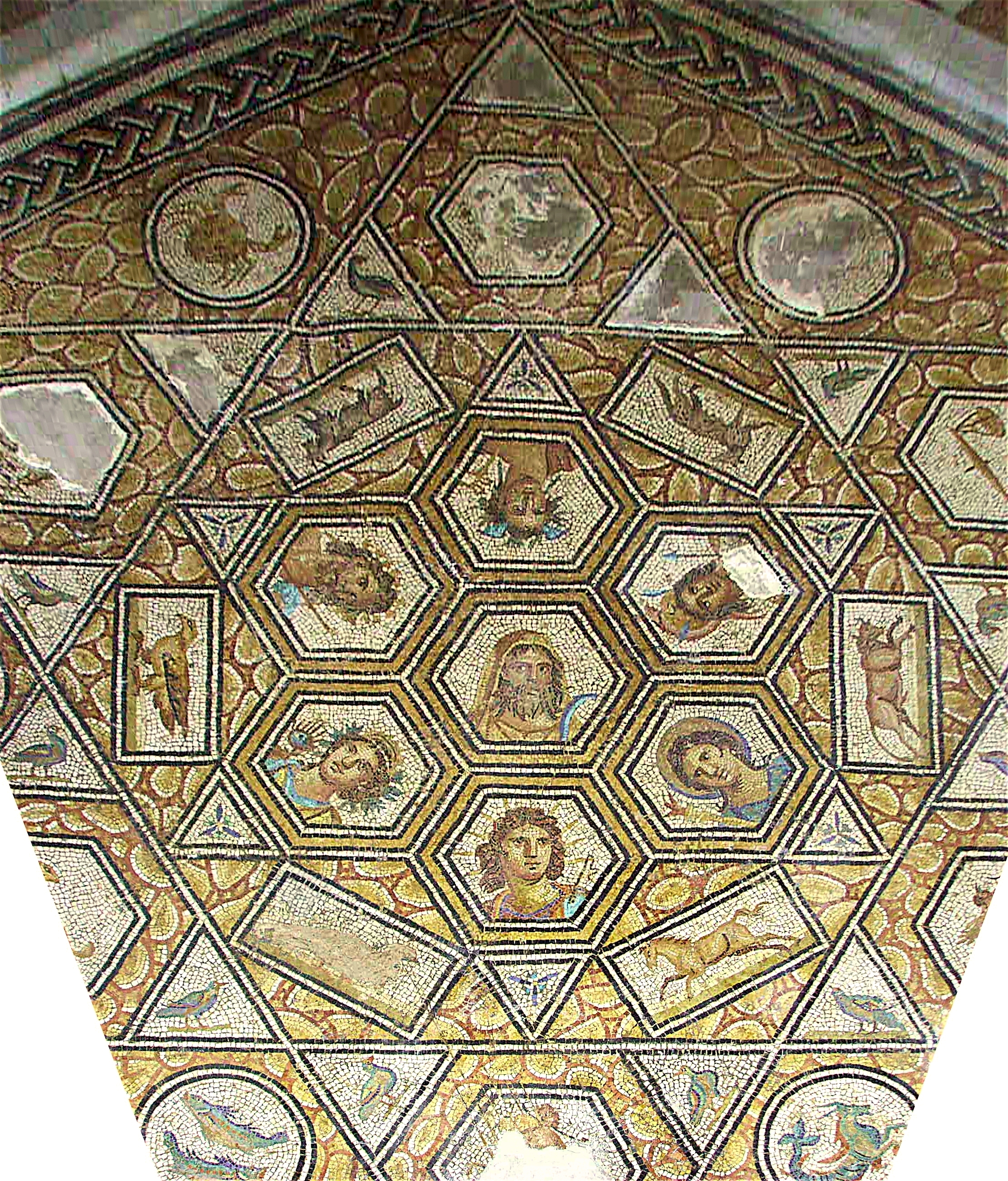 A mosaic in the Bardo National Museum